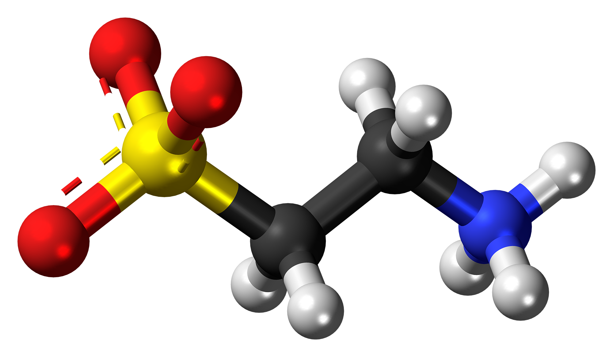 Ball-and-stick model of the taurine molecule, a major constituent of bile. This image shows it as a zwitterion. Color code: Carbon, C: black Hydrogen, H: white Oxygen, O: red Nitrogen, N: blue Sulfur, S: yellow